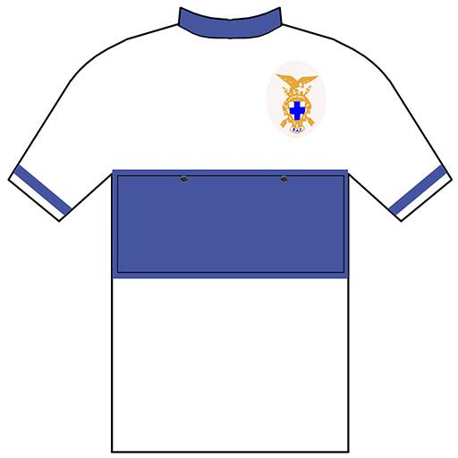 Cycling jersey of Iluminante team in the years 1942 and 43.